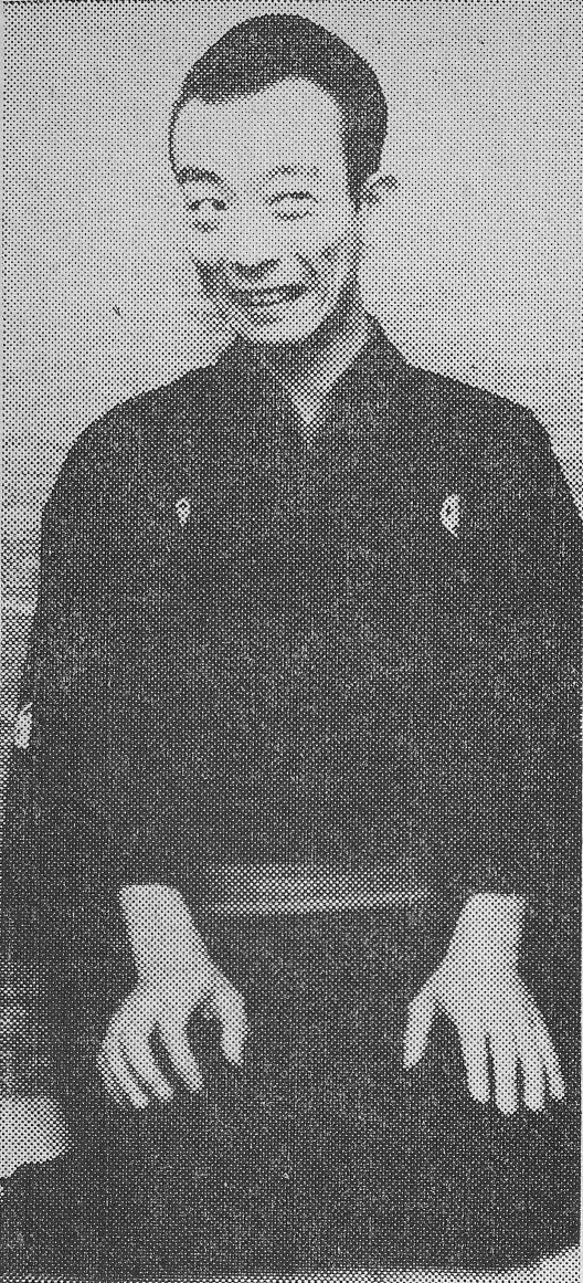 Katsura Utamaru. taken in 1966 or earlier.